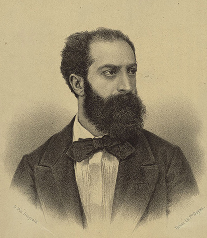 Portrait of Emilio Usiglio, composer (1841-1910), before 1910.